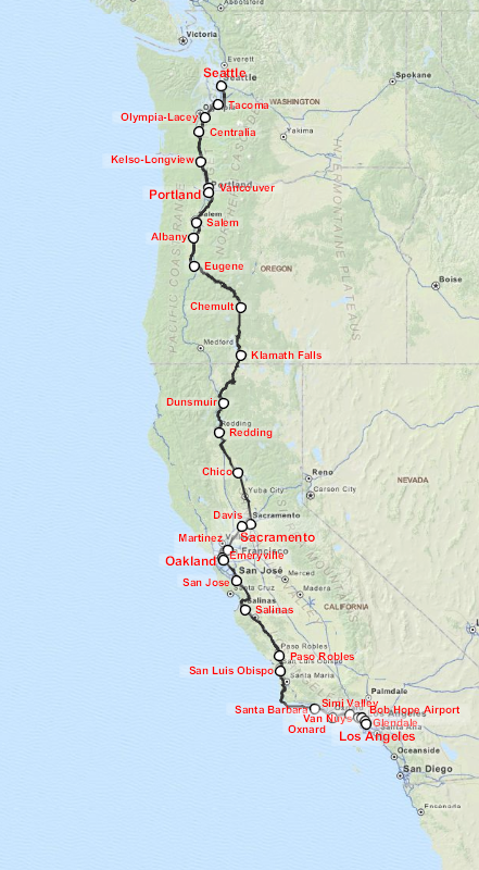 Amtrak Coast Starlight